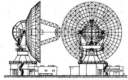 Plan Coupe PB2